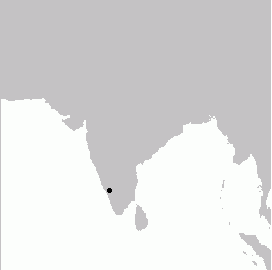 Distribution map of Melanophidium bilineatum